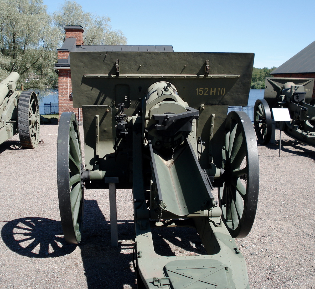 Russian 152 mm howitzer Model 1910 Schneider (6 dm polevaja gaubitsa sistemy Schneidera) , displayed in Hämeenlinna Artillery Museum. This particular gun was manufactured in Perm in 1917. Photo taken on June 18, 2006. Source: Photo by me, User:Balcer.